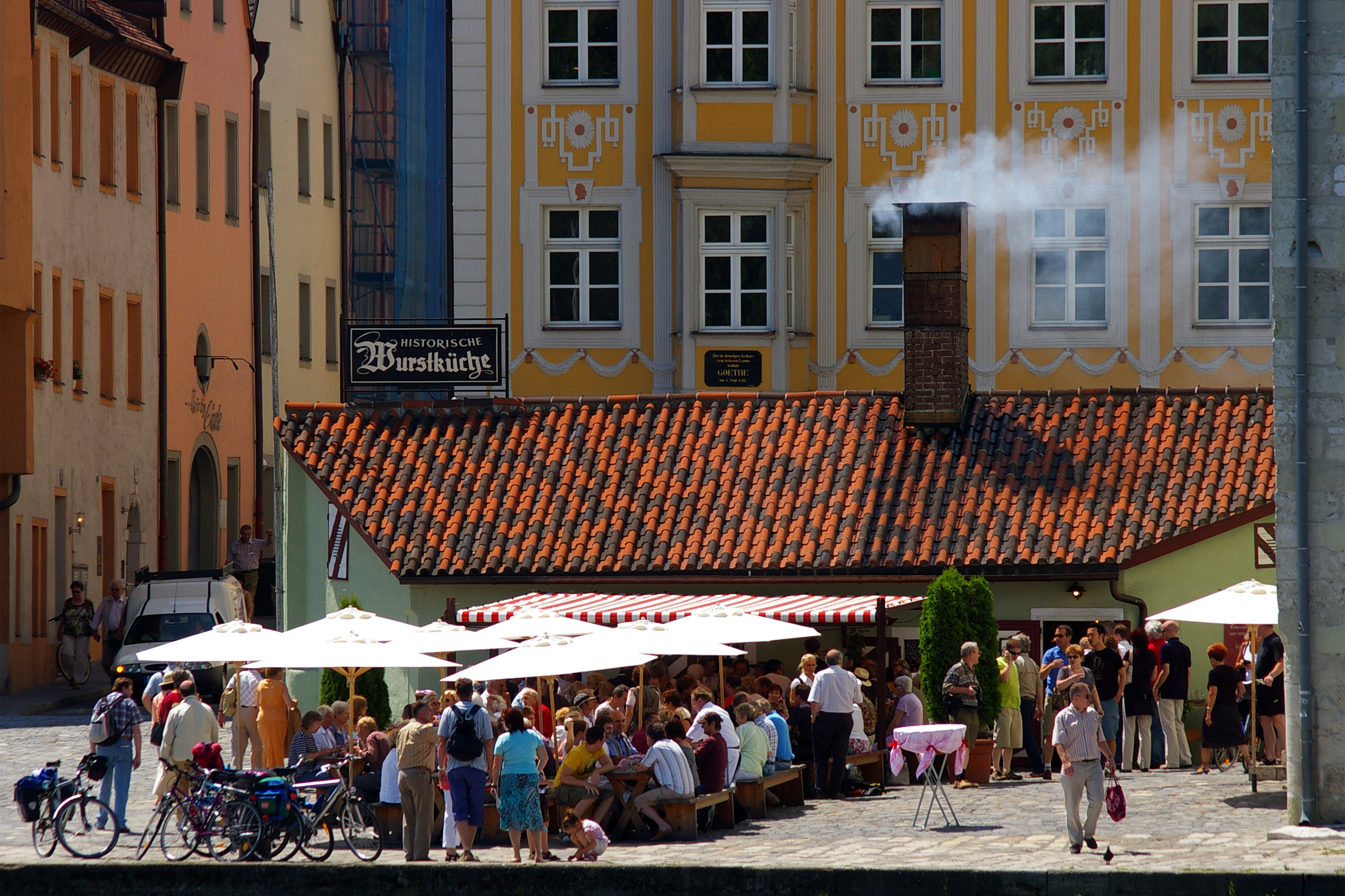 View from the northern bank of the river Donau to the Wurstlkitchen in Regensburg